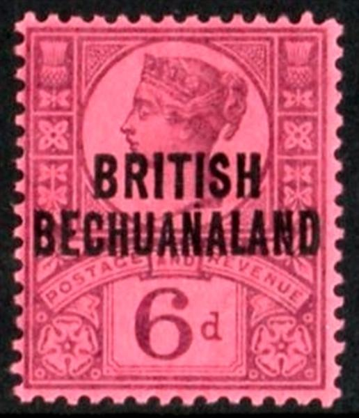 1891-1894 6d postage stamp of Great Britain overprinted as a Forerunner for British Bechuanaland